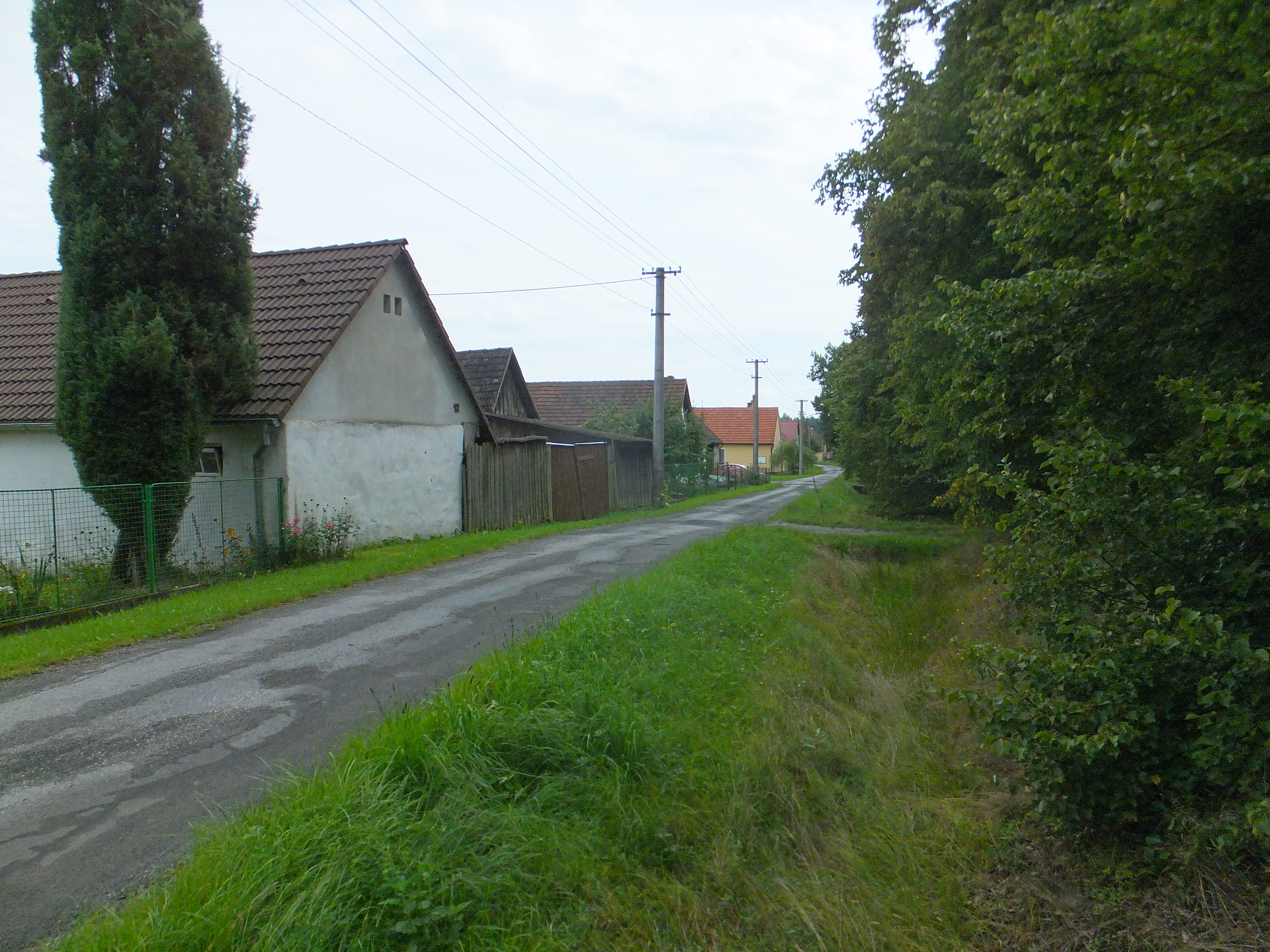 Nepomuk (part of municipality Jílovice) - the house No. 12